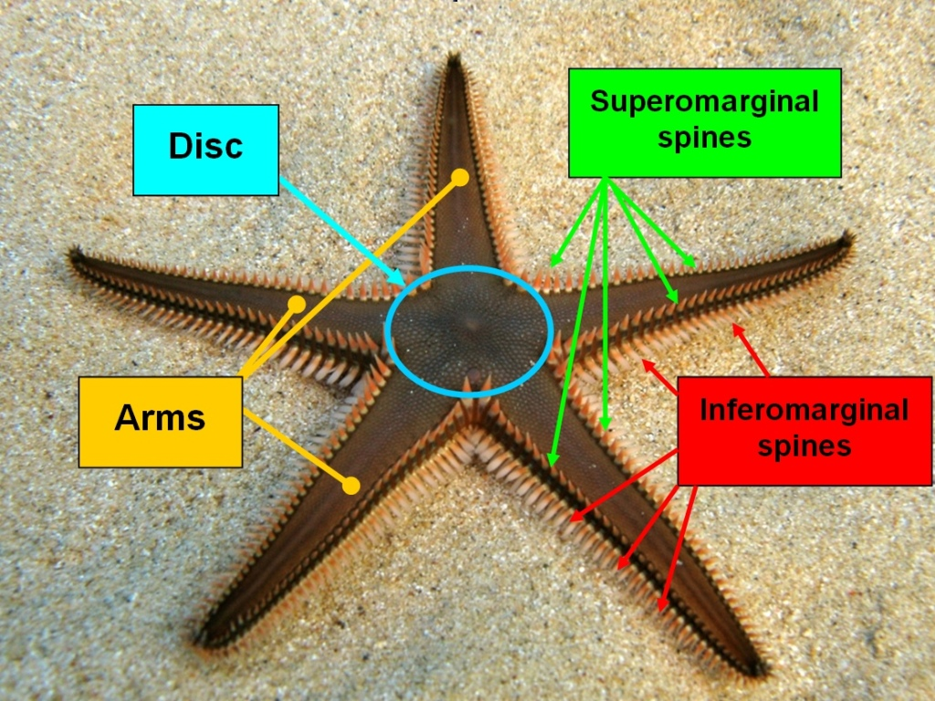 The main elements of starfish genus Astropecten